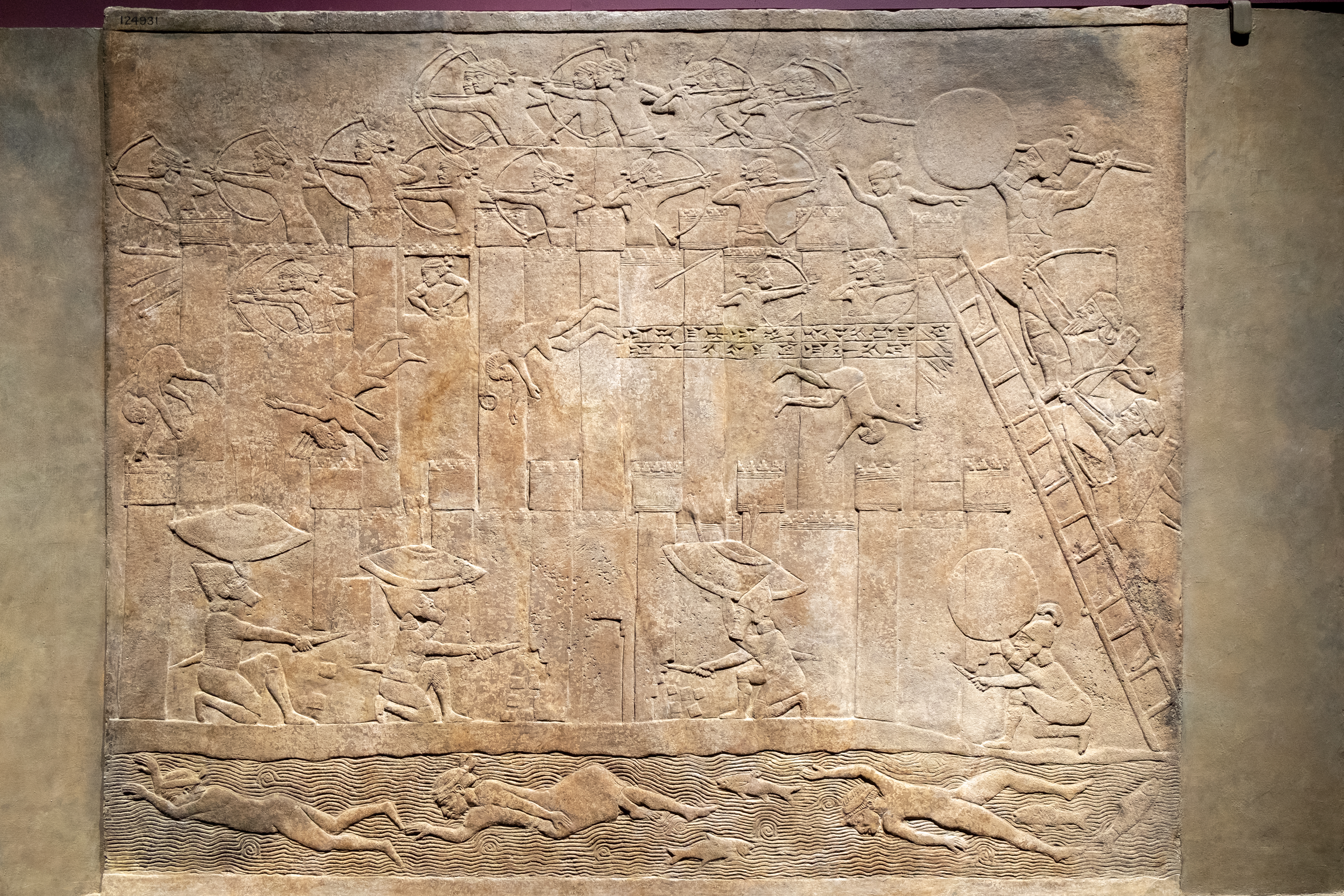 2018 Ashurbanipal - Siege of Hamanu British Museum, London